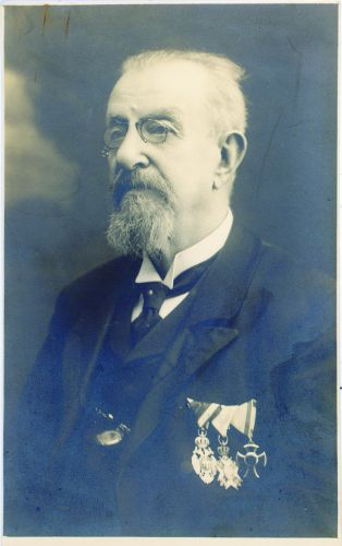 Fran Serafin Vilhar (1852-1928), Slovene composer and musician.